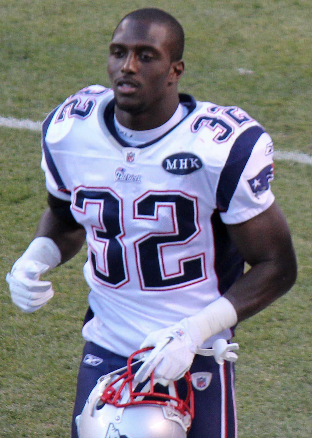 Devin McCourty, a National Football League player.